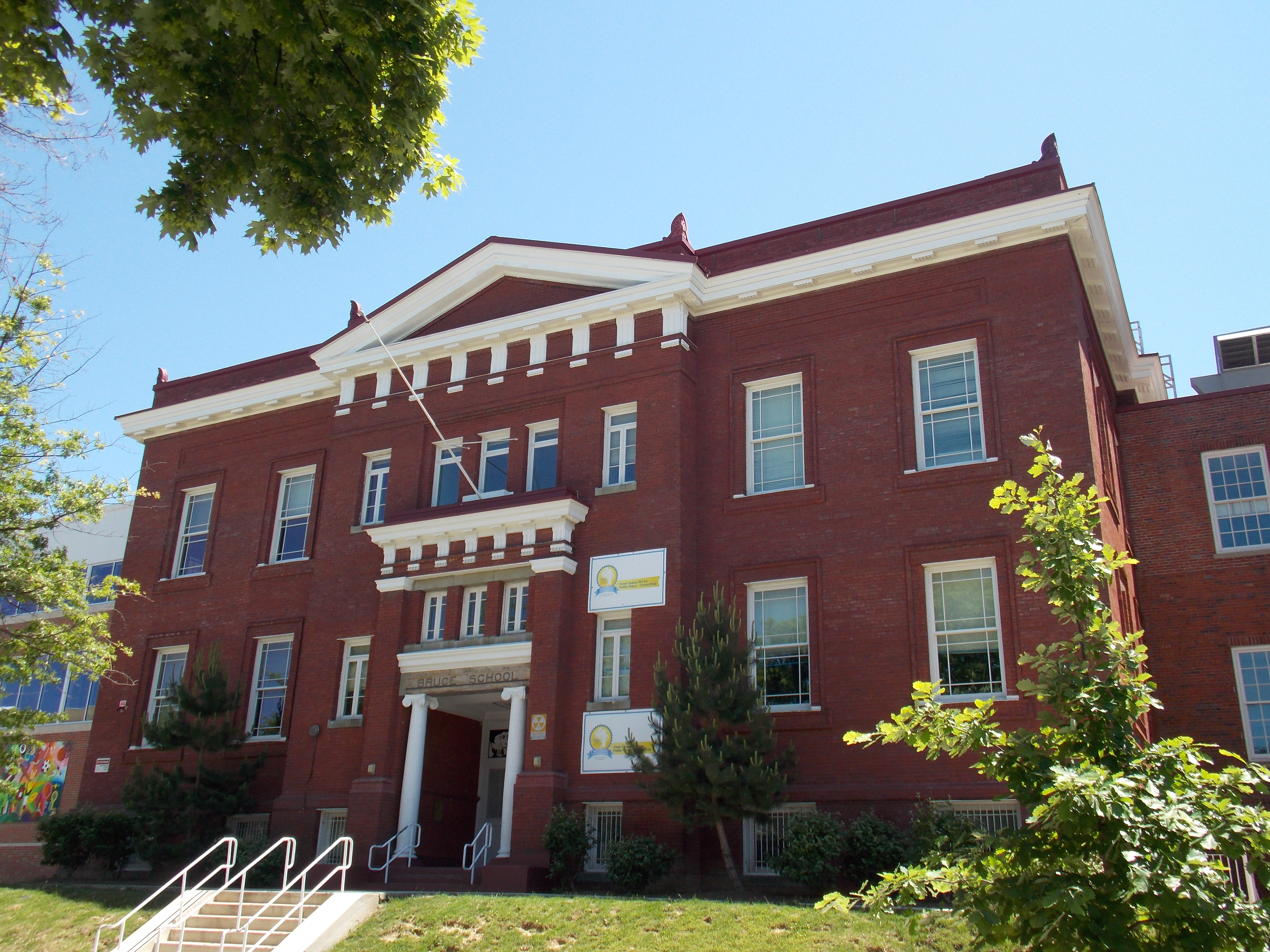 The former Blanche Kelso Bruce Elementary School in Washington, D.C. The building is listed on the National Register of Historic Places.